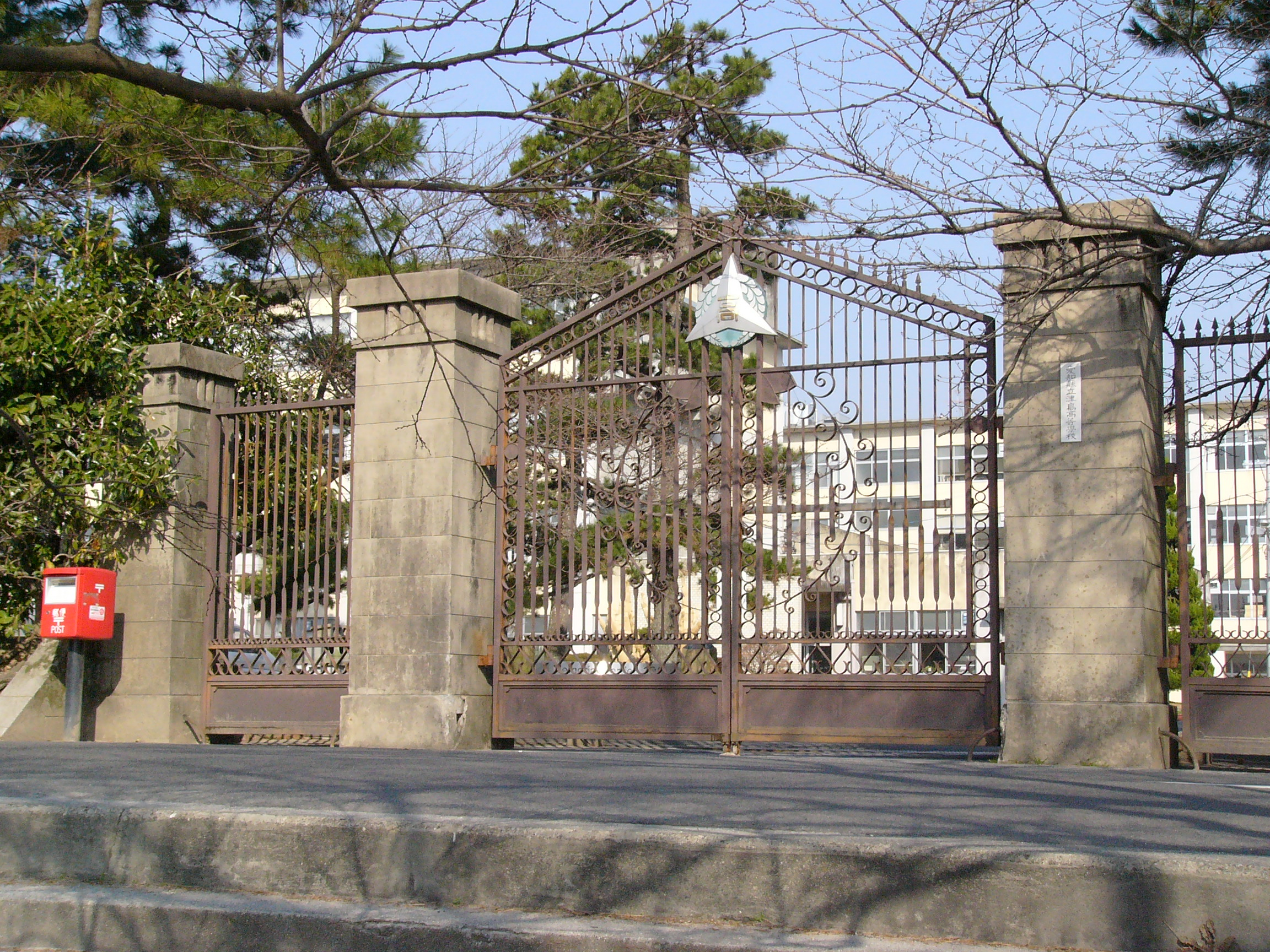 Aichi Prefectural Tsushima High School in Tsushima city, Aichi prefecture, Japan.